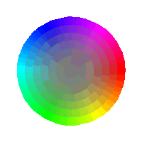 Color Saturation